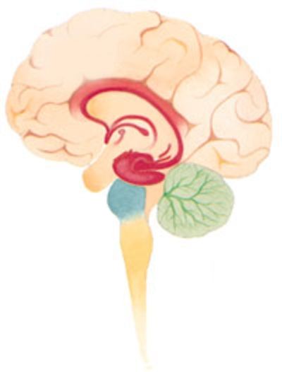 Diagram of the human brain's limbic system, cerebellum, brainstem and spinal cord, without labels. Original US-Governmental